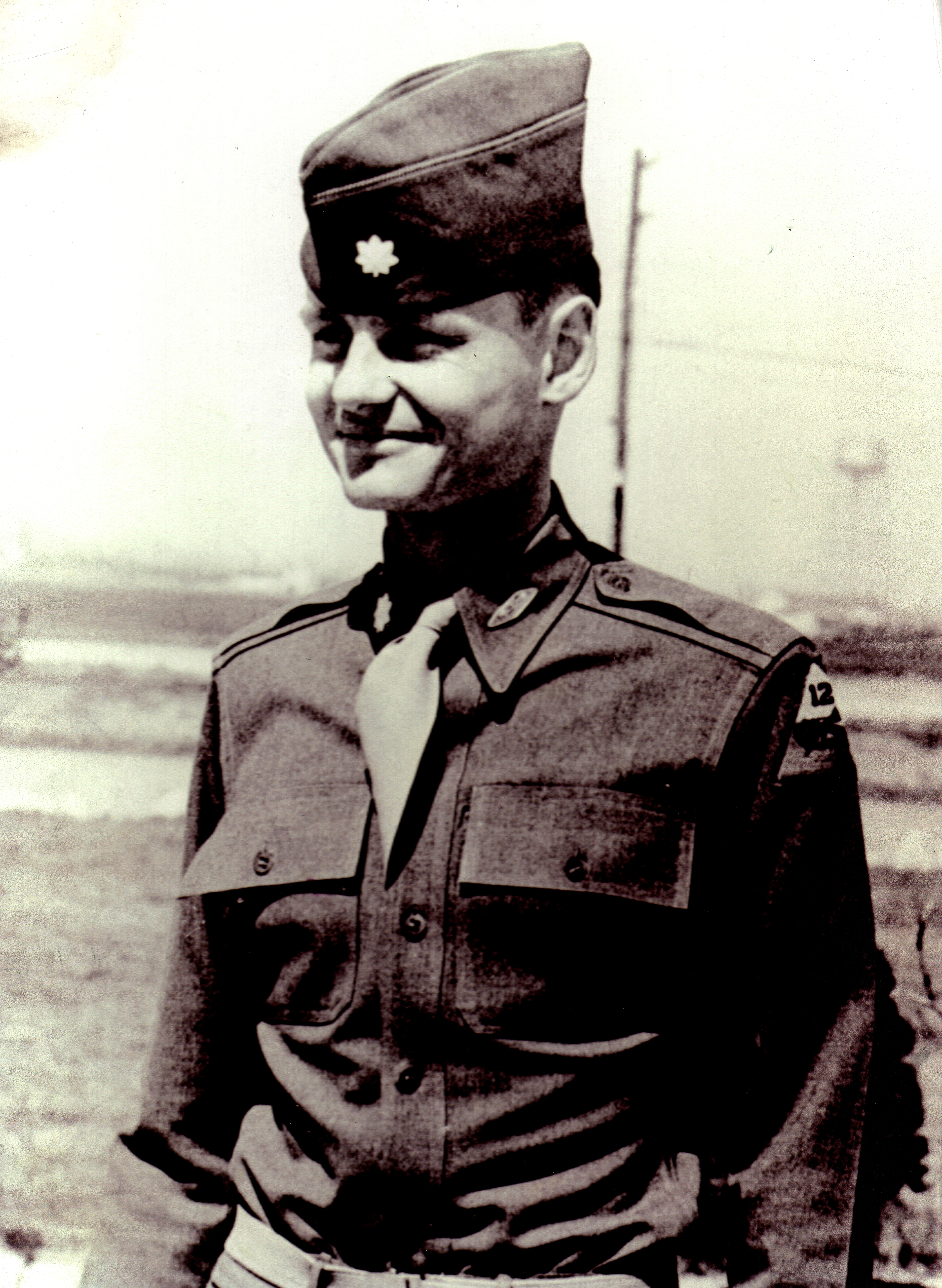 Lt. Col. Montgomery C. Meigs, b. 1919, at Camp Barkeley, Abilene, Texas, c. 1942.